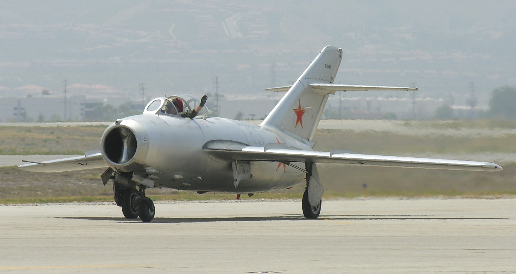 Mikoyan MiG-15, Chino, California